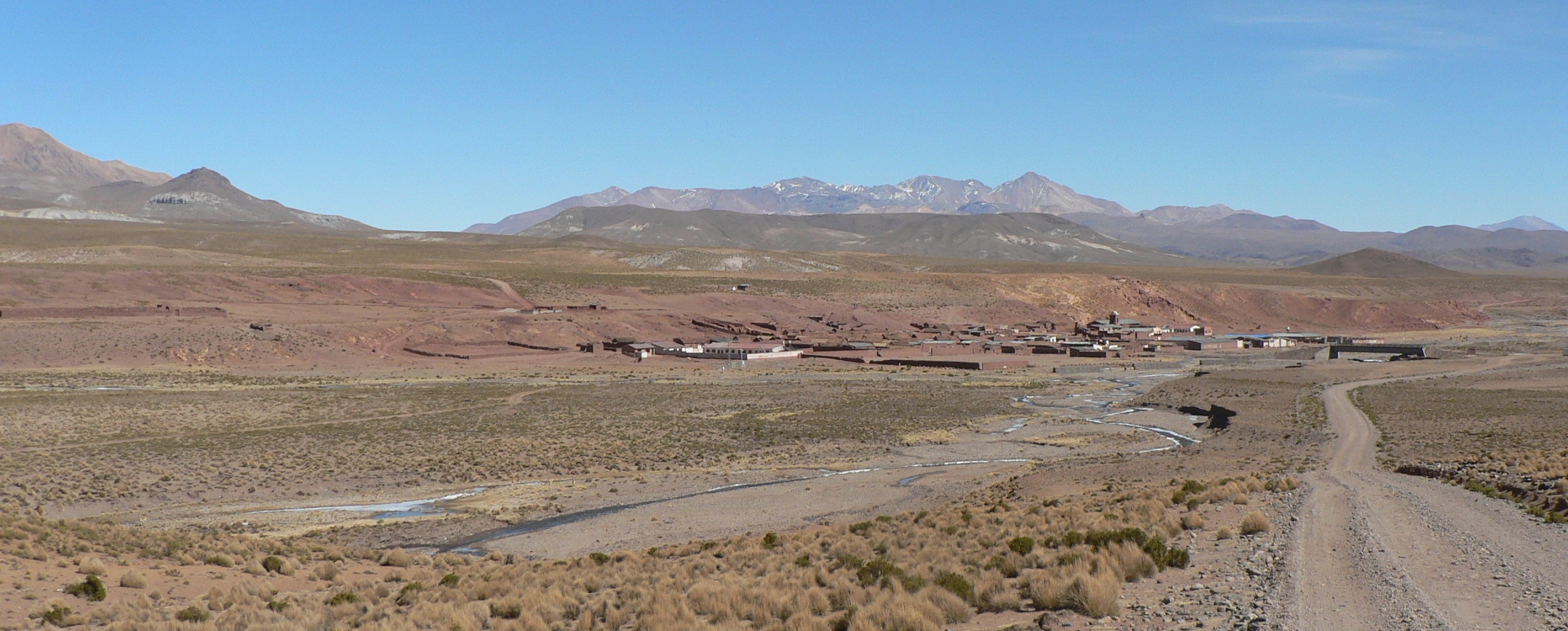 View from north east to San Pablo de Lipez, Potosí, Bolivia, July 2007.